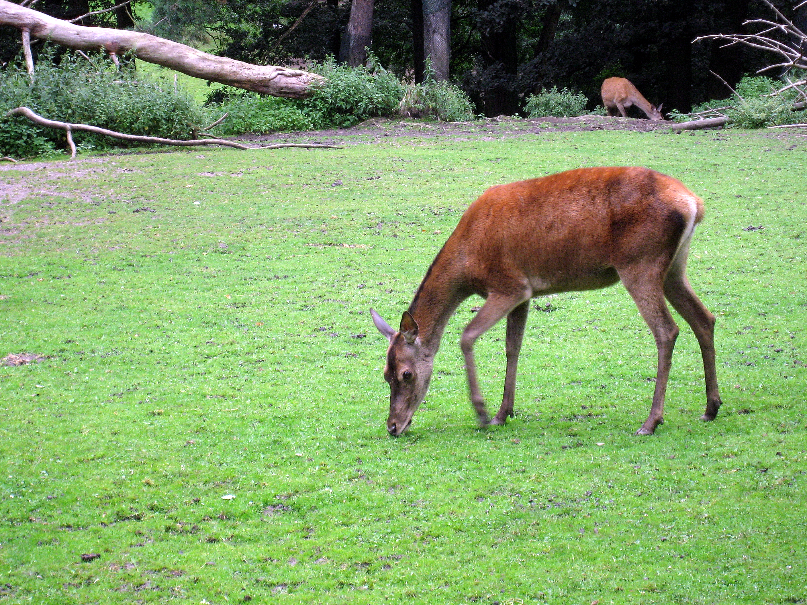 Dortmund, Tierpark, Rotwild (Cervus elaphus)